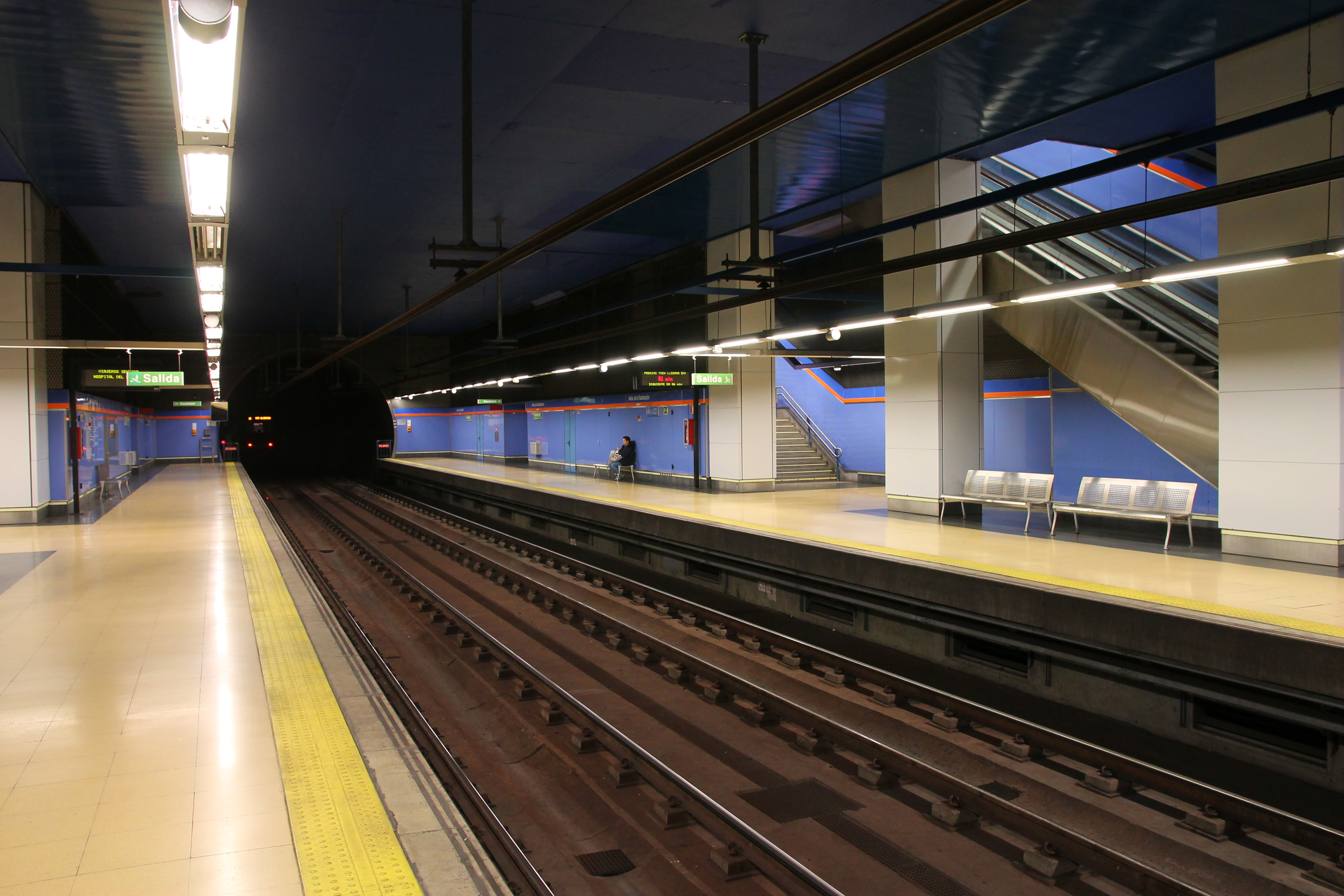 Estación de Avenida de la Ilustración